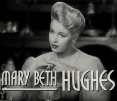 Mary Beth Hughes in Design for Scandal - trailer (cropped screenshot)